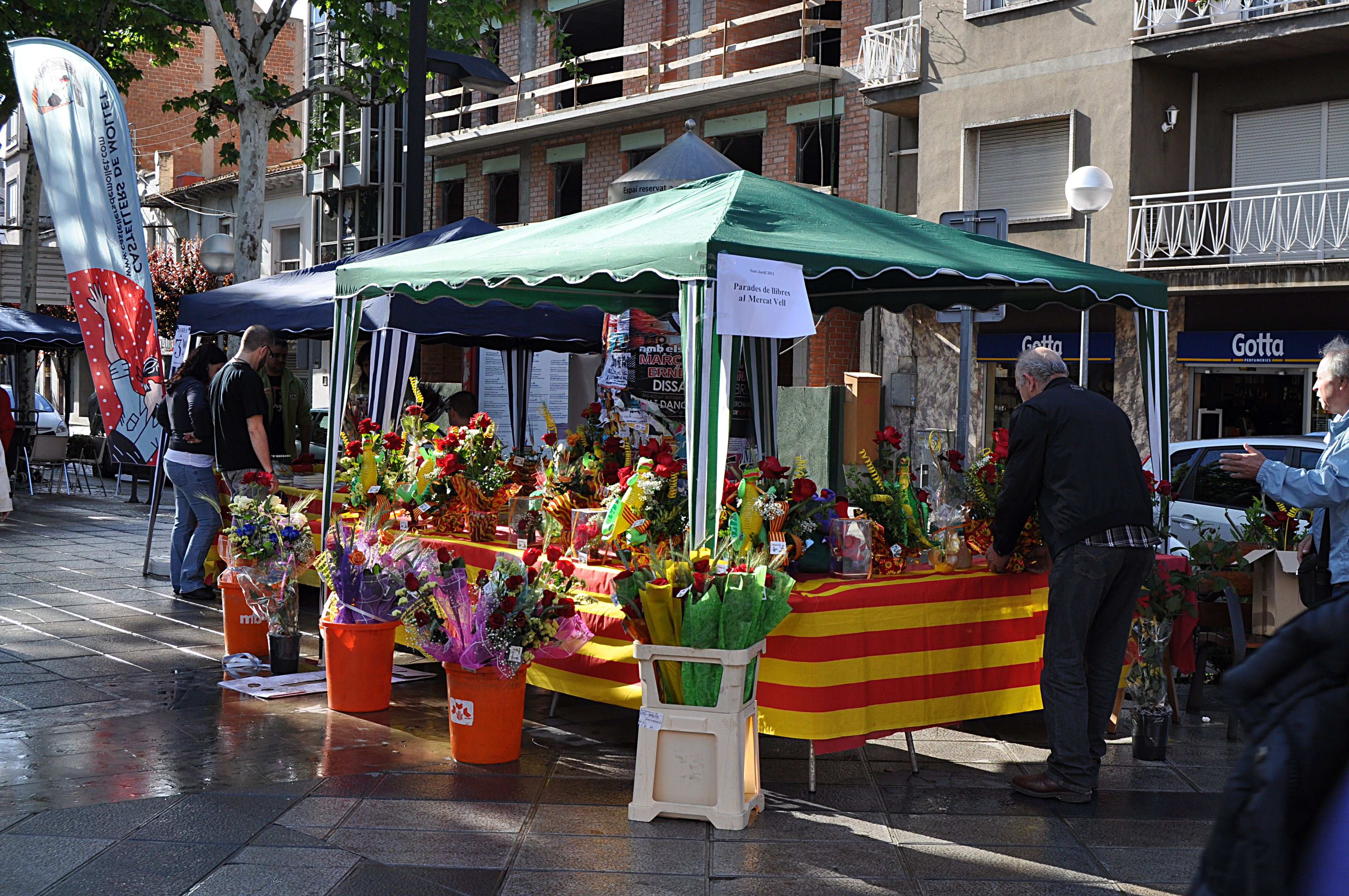 Diada de Sant Jordi 2011 in Mollet del Vallès.